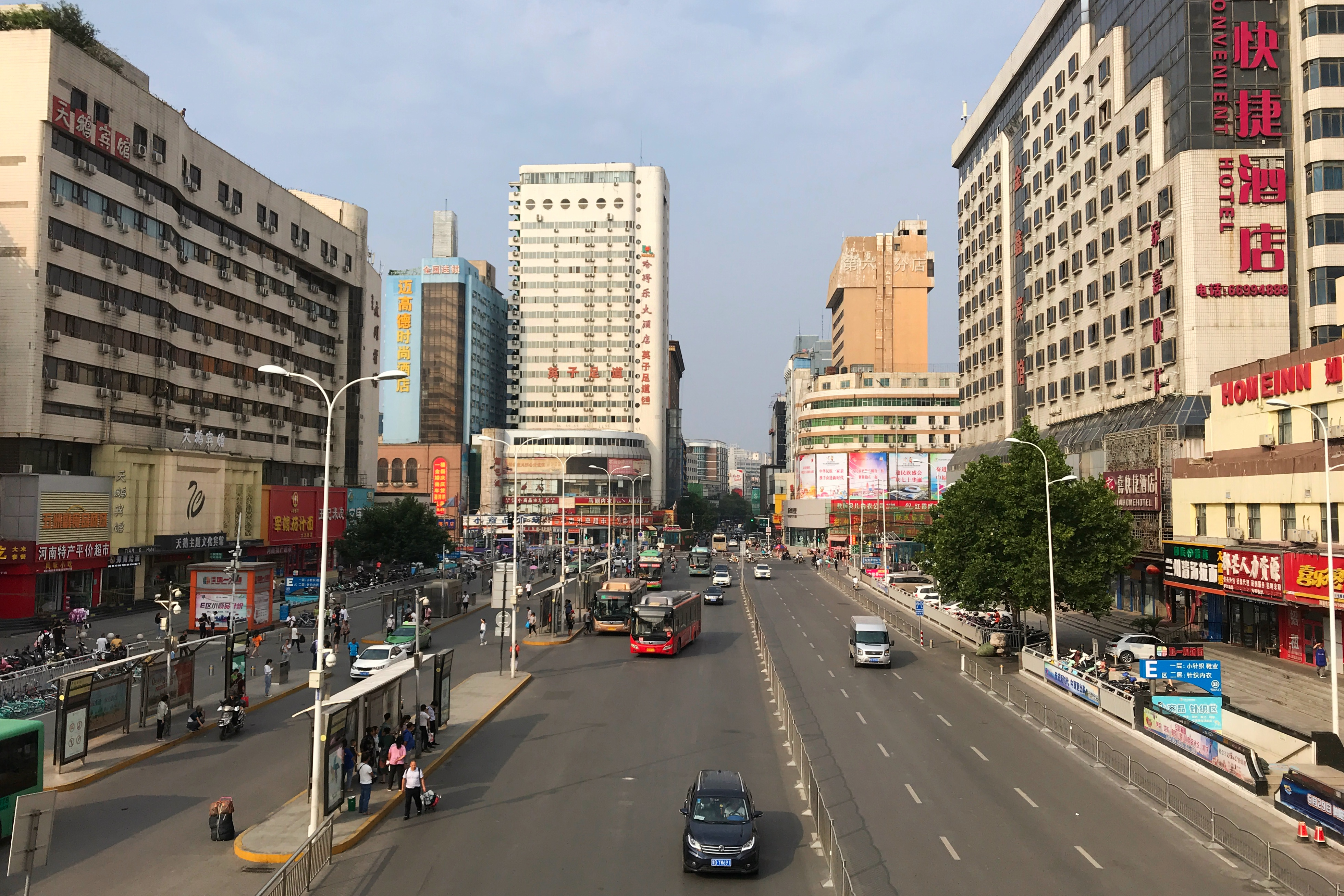 Datong Road west section in Zhengzhou